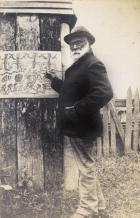 William Barak (1824-1903), Native Australian artist